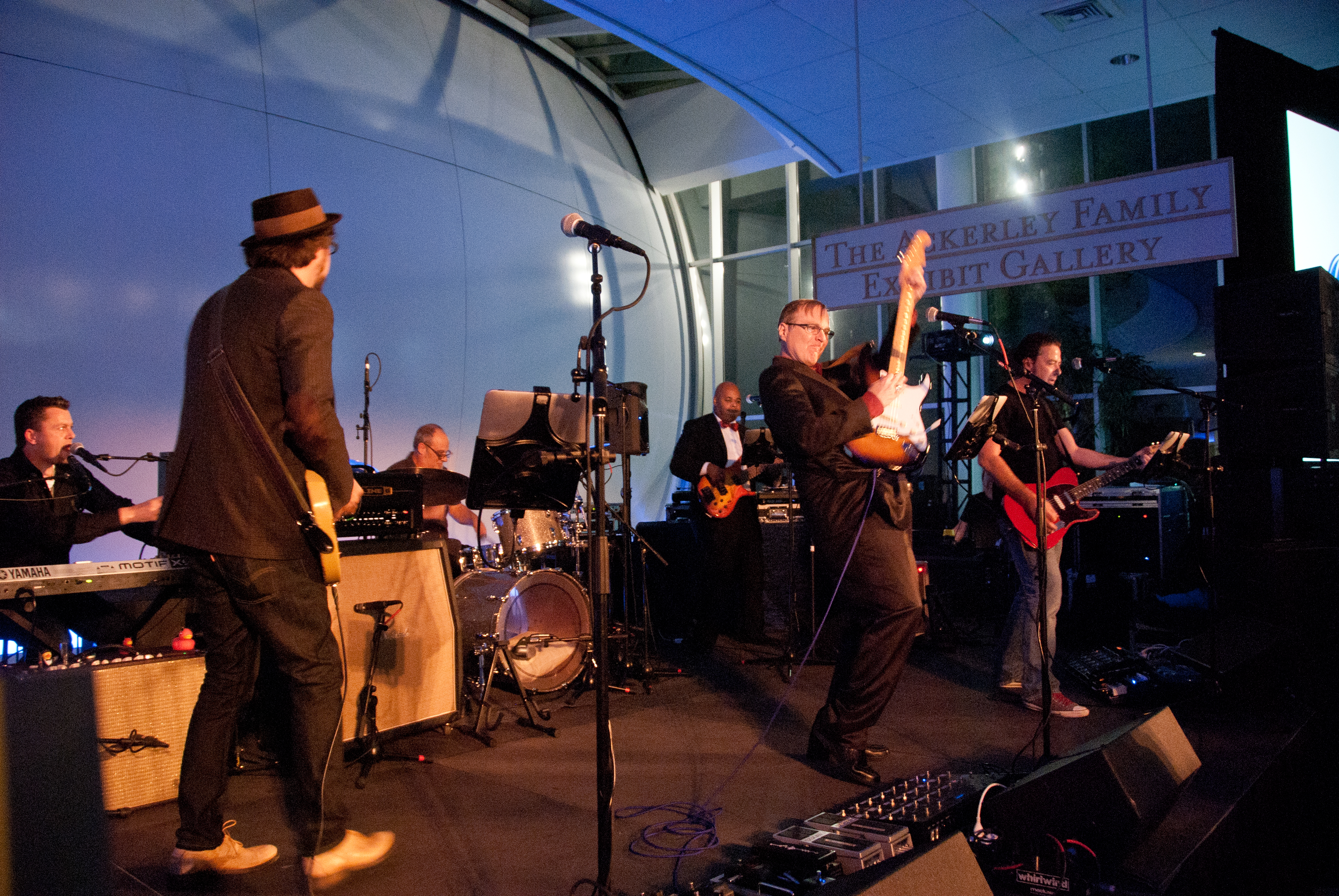 Paul Allen and the Underthinkers at the 10th Anniversary of AIBS gala